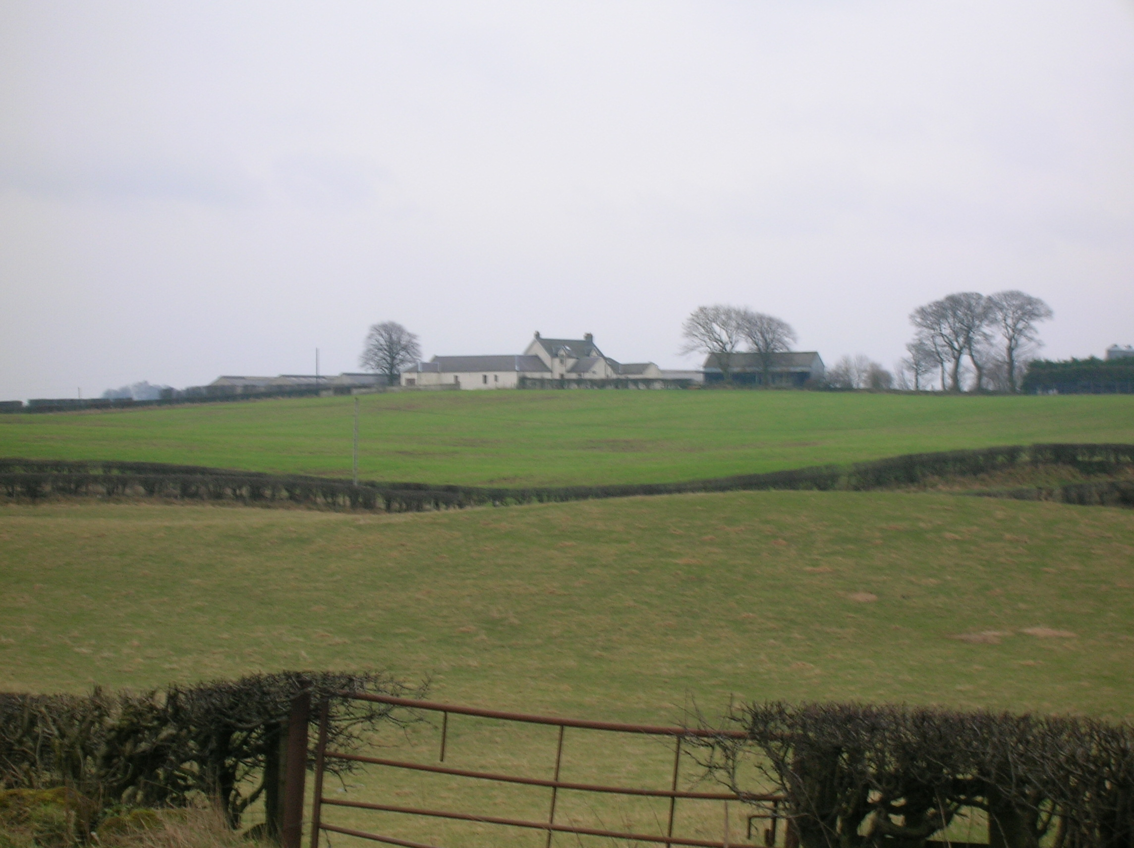 Hillhead Farm, previously Cranshaw in North Ayrshire. 2007.